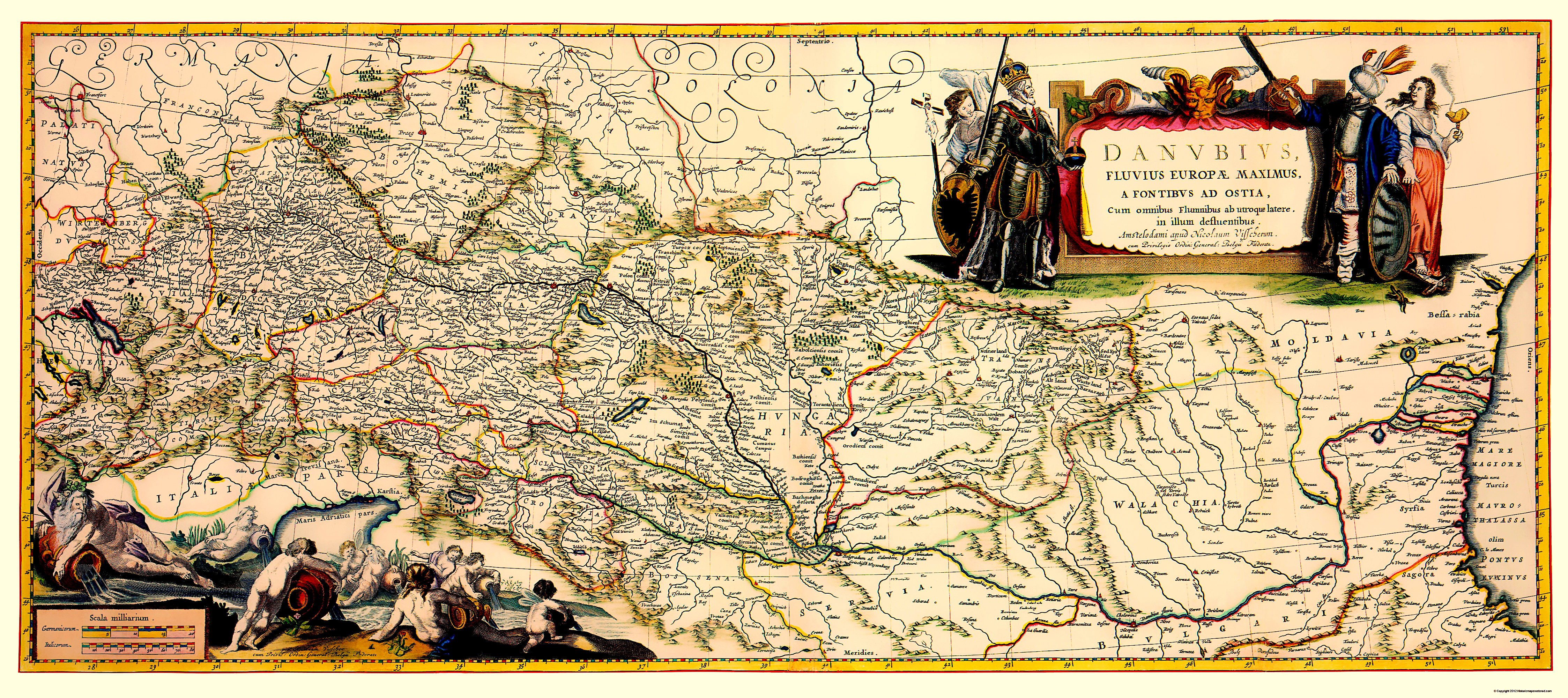 Willem_Blaeu|Willem Jansz. Blaeu Danube - Germany - Austria - Turkey